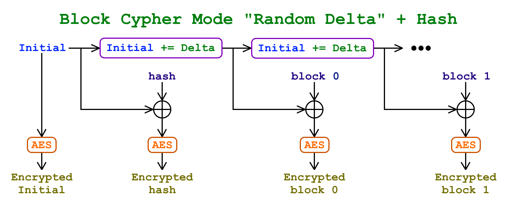 Illustration of Block Cypher Mode "Random Delta" with Hash